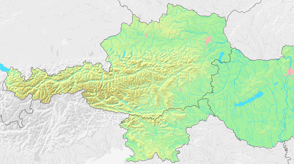 Map for showing the teams of Austrian Hockey League (EBEL)